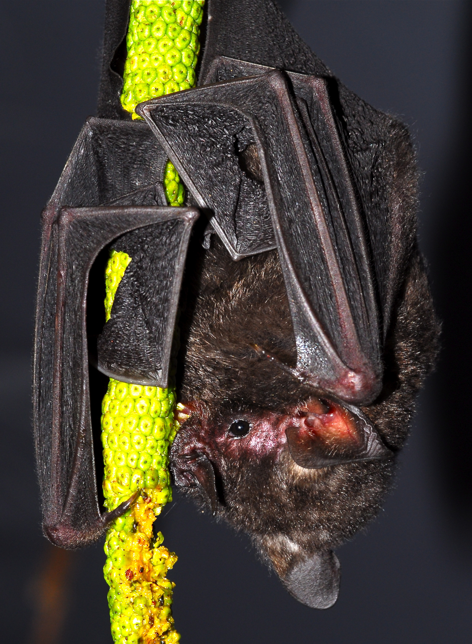 A short-tailed fruit bat Carollia perspicillata feeding on a Piper aduncum fruit in a gallery forest in southeastern Brazil